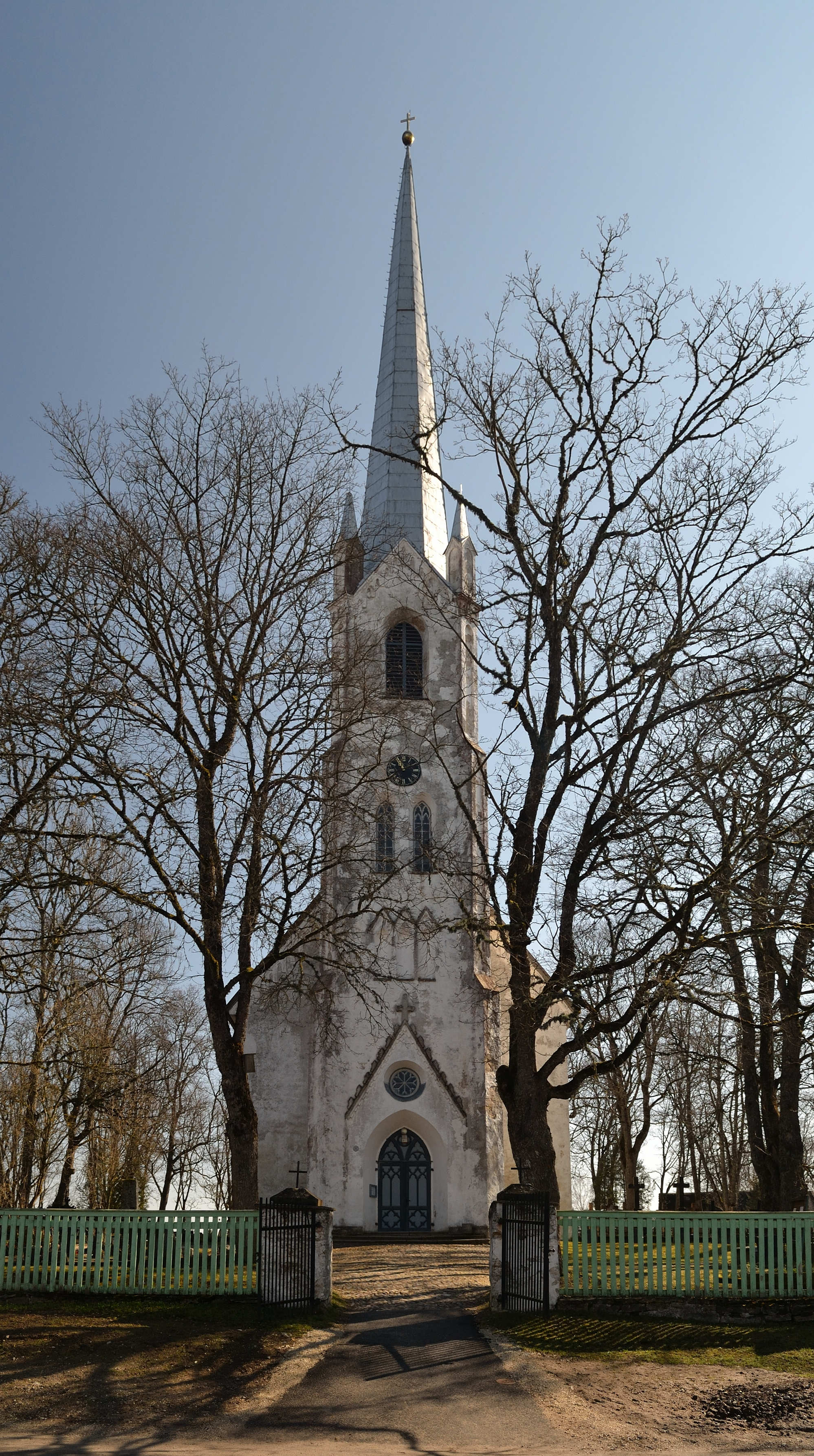 Järva-Jaani church